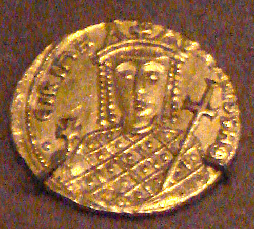 Gold Solidus of Irene, 797-802, Constantinople